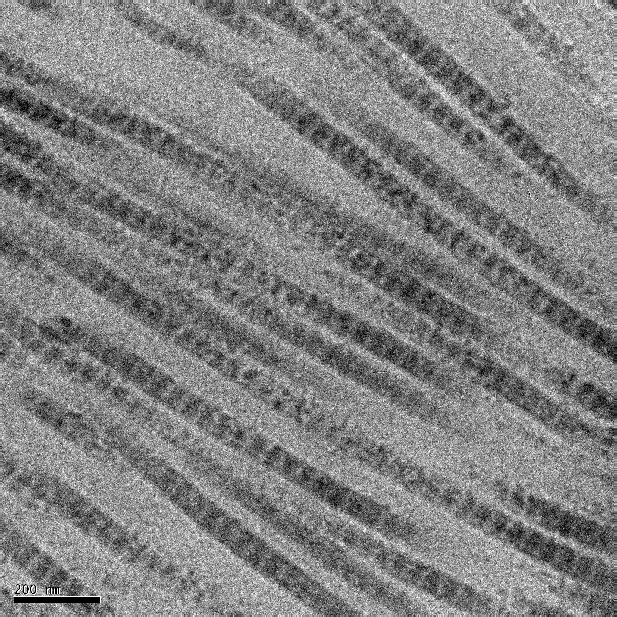 Vincent R. Sherman and Maria I. Lopez. Transmission electron micrograph of the collagen fibrils in rabbit skin.